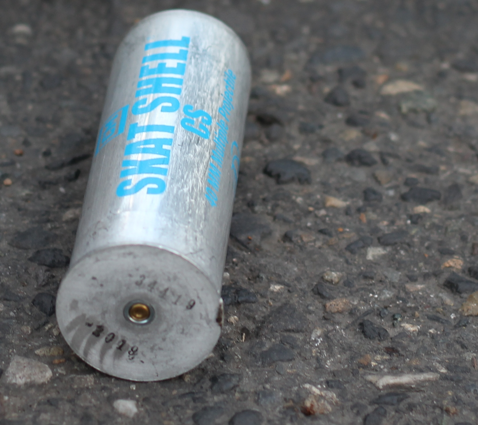 empty tear gas canister on the ground in Portland, Oregon